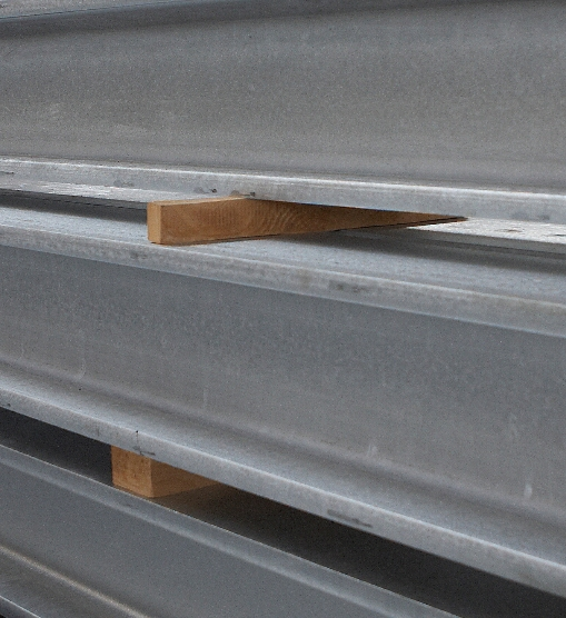 Galvanized Steelbeams